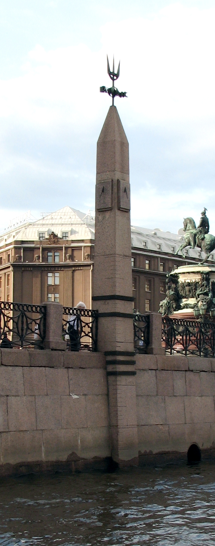 Saint Petersburg. Granite commemorative stele with marks of the strongest flooding in St.-Petersburg. Moika river near the St. Isaac's Square.